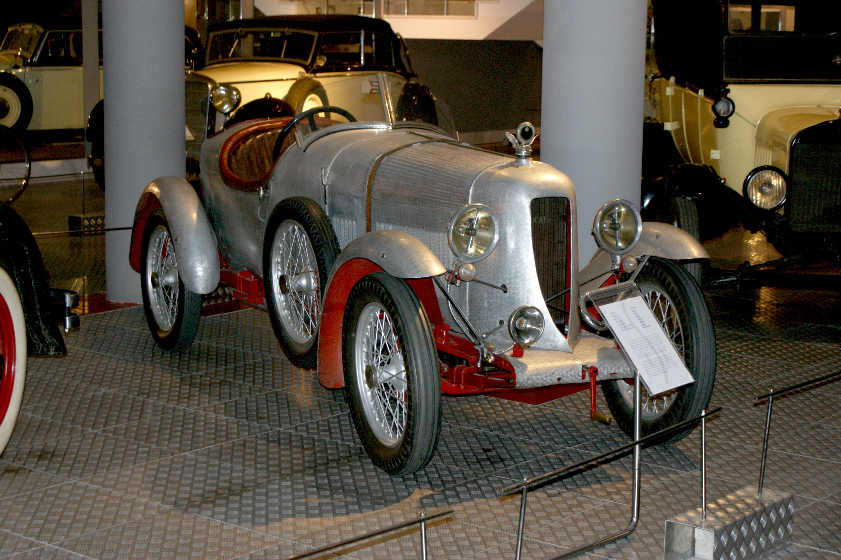 1927 Amilcar CGSs 1.1 litre at the Salamanca Motor Museum, 04/08.